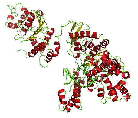 3D structure of full-length Taq Polymerase with DNA at the polymerase active site. (PDB 1TAU.) Generated with MacPymol, Ref